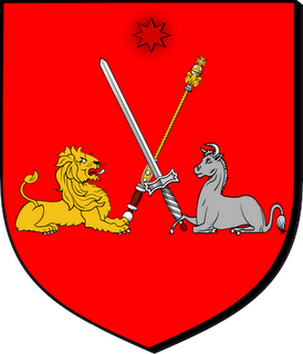 Arms of the Kingdom of Kartli